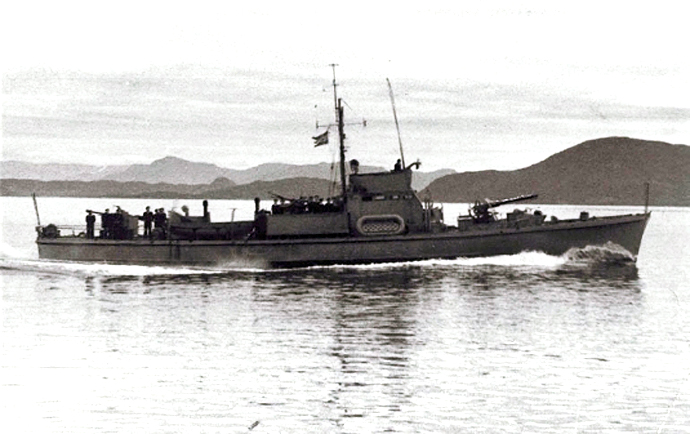 Vigra on its first trip to Norway